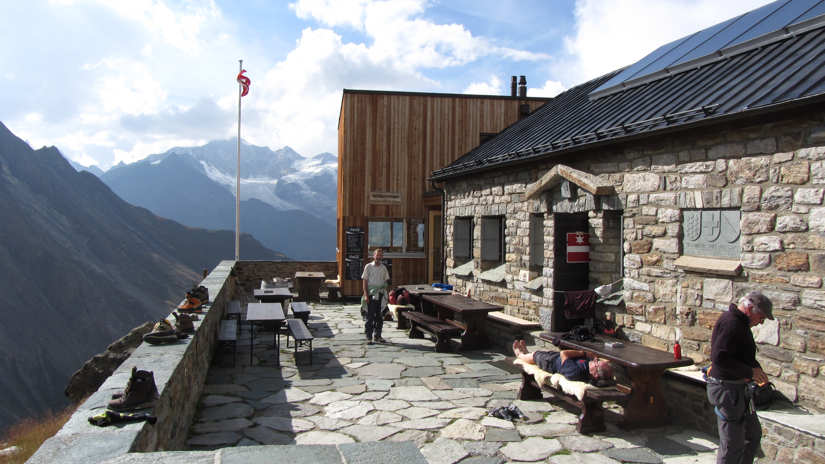 Täschhütte, Täsch VS, Schweiz